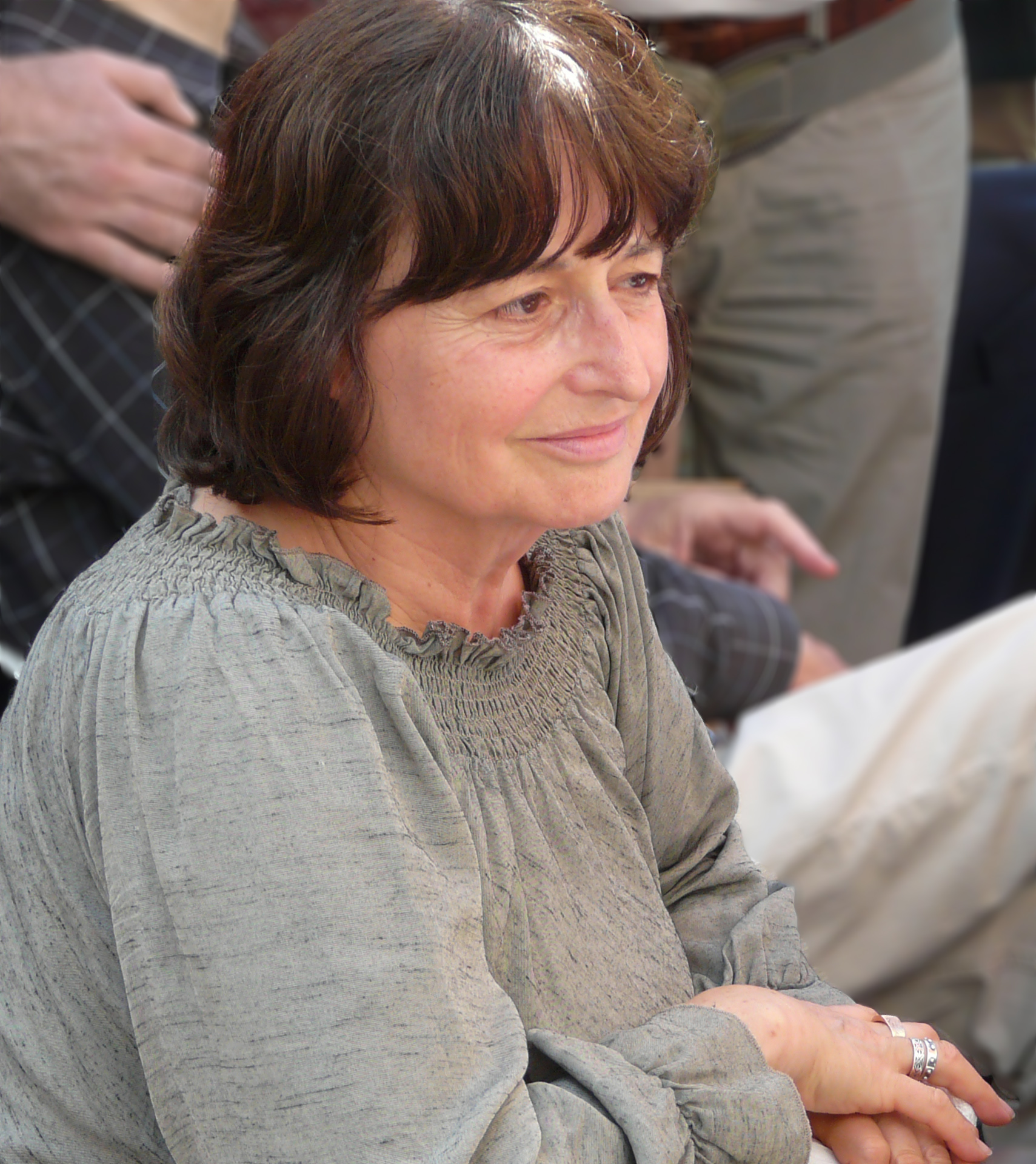 Katalin Mezey, Hungarian writer. Juin 2010.